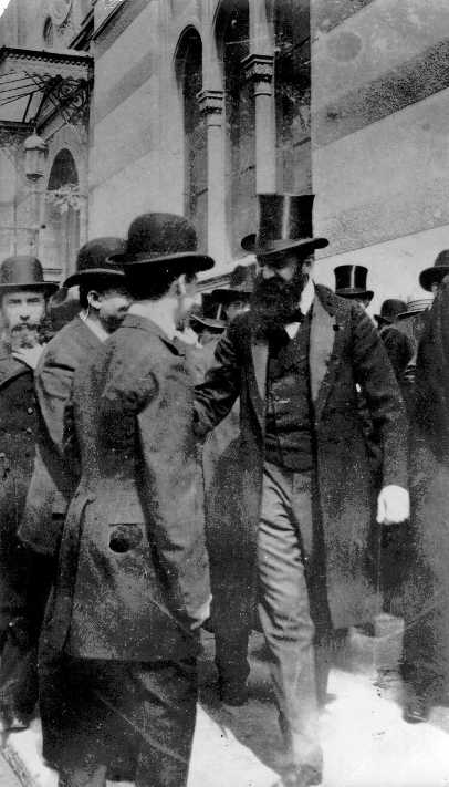 Herzl going out of a Synagogue in Basel 1903